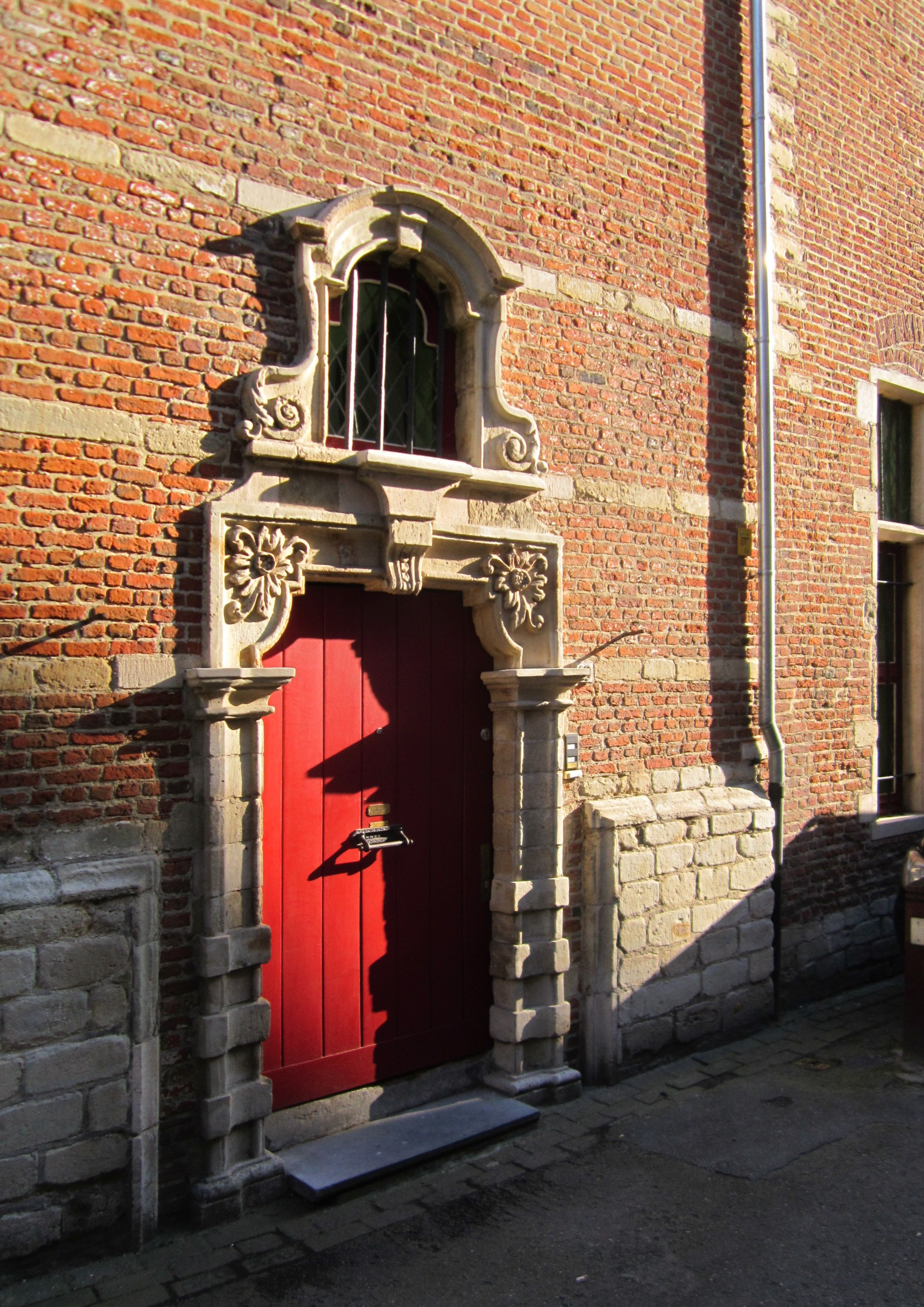 Refuge of Tongerlo Abbey in Mechelen, side entrance.